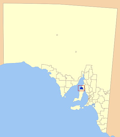 Map of South Australia showing the location of the Copper Coast Local Government Area. A modification of GDFL map by Astrokey44; found here: File:SA_LGA_blank.png